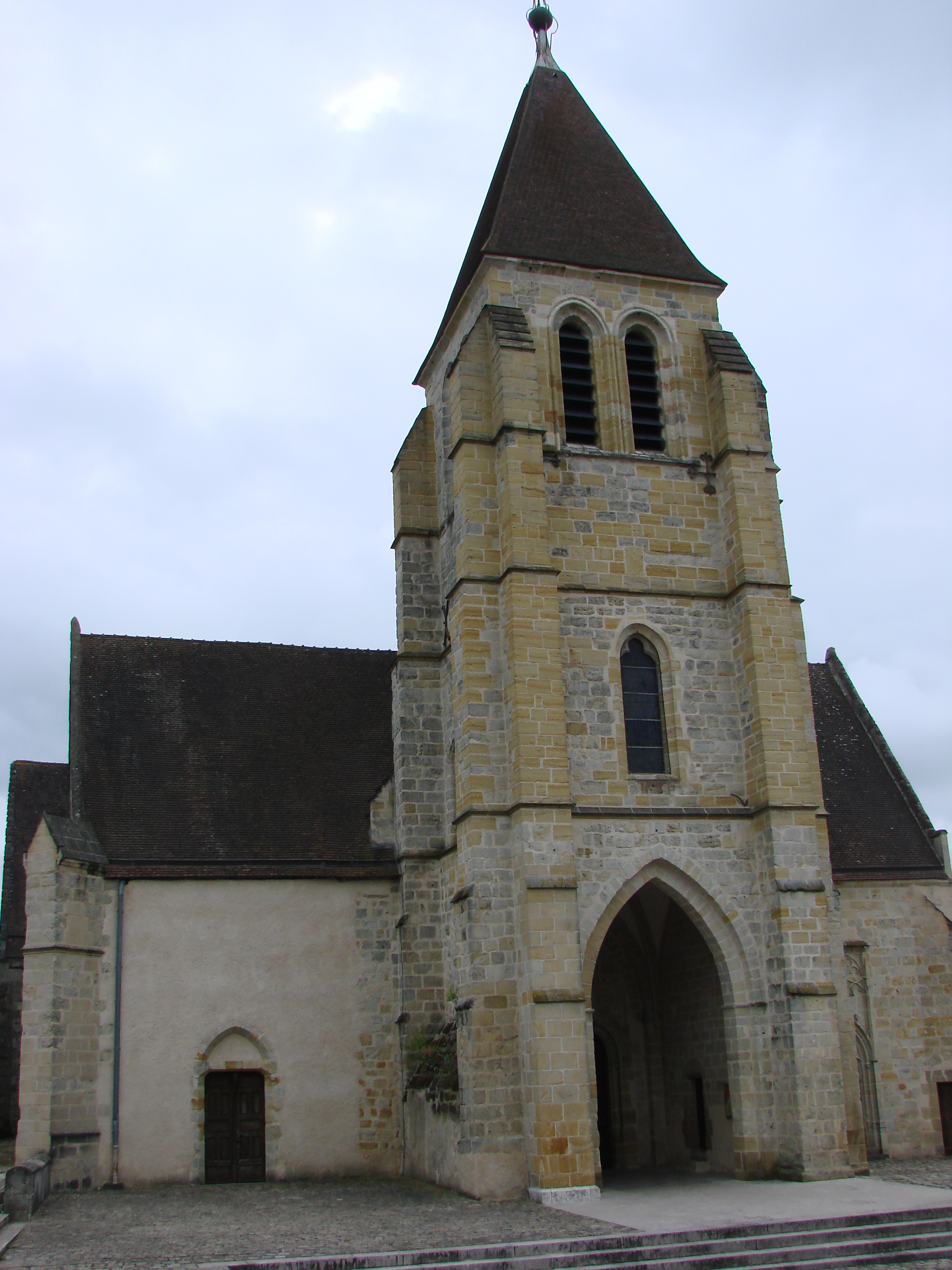 Church Notre-Dame (Our Lady) of Vierzon (France)